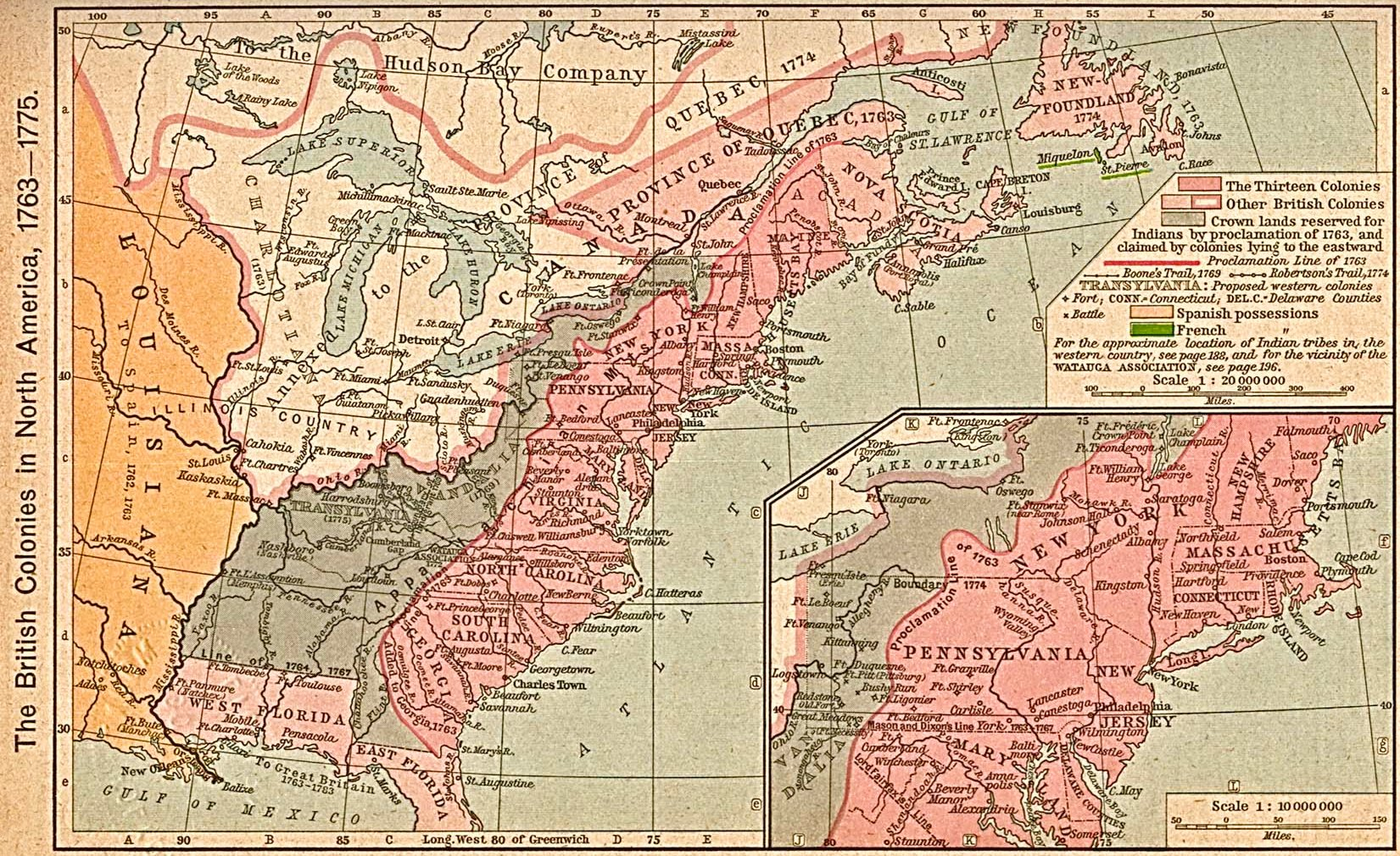 Map of the British colonies in North America, 1763 to 1775. This was first published in: Shepherd, William Robert (1911) "The British Colonies in North America, 1763–1765" in Historical Atlas, New York, United States: Henry Holt and Company, pp. p. 194 Retrieved on 27 October 2010.